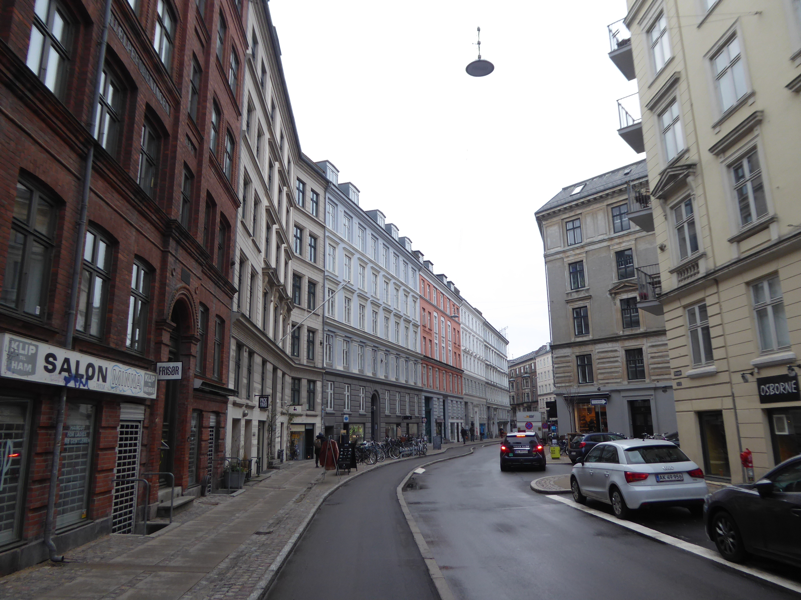 The street Elmegade in Nørrebro in Copenhagen.